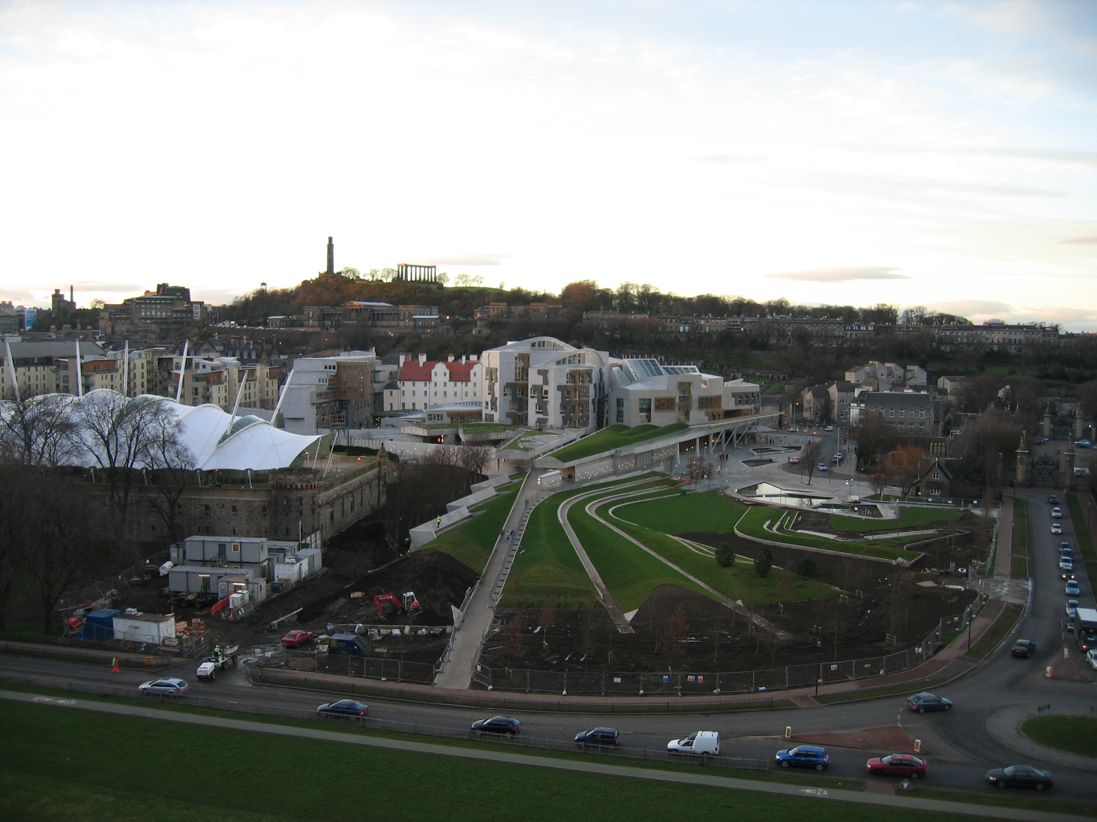 A view of the new Scottish Parliament from midway up the Salisbury Crags.